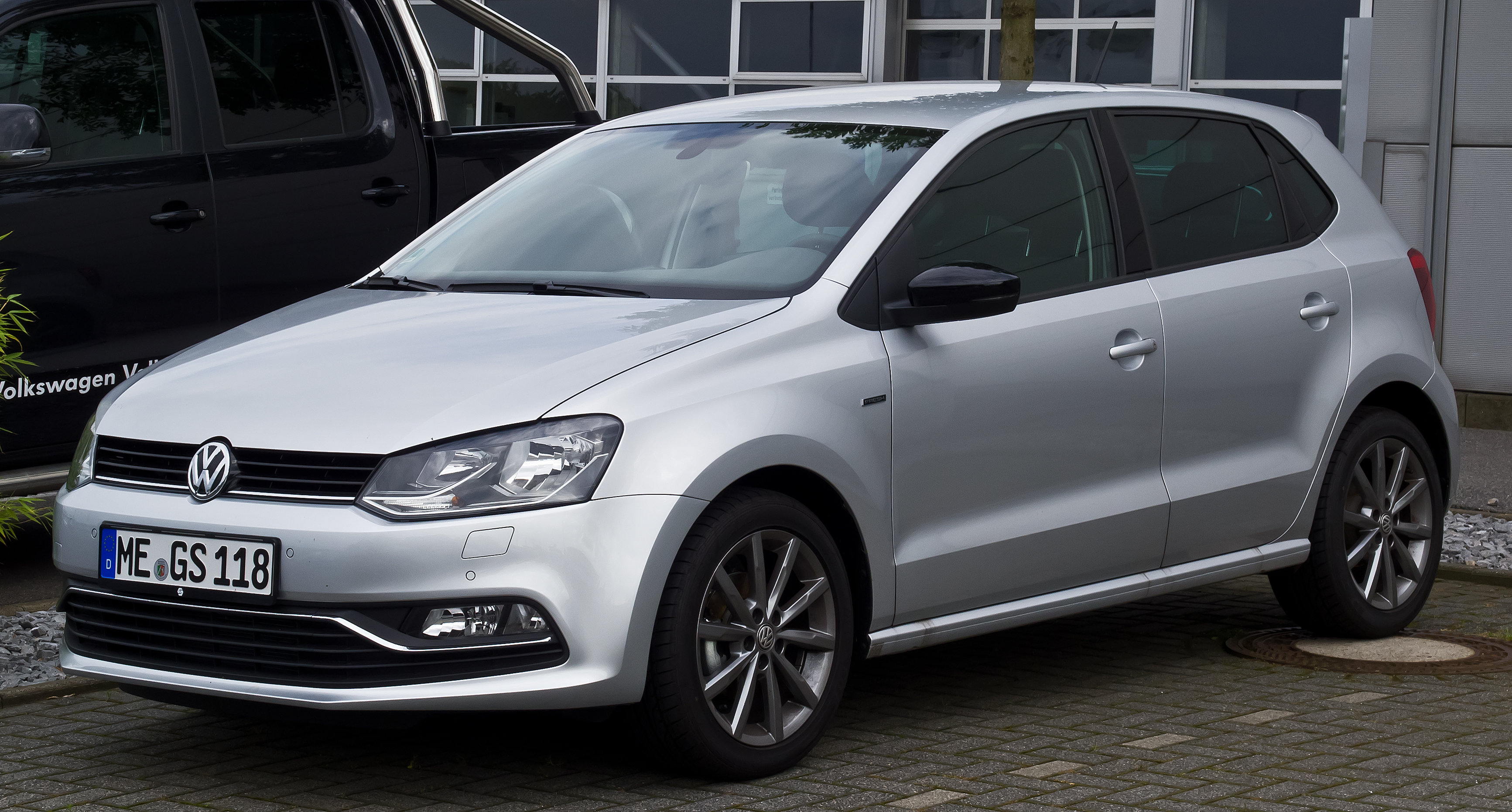 VW Polo 1.2 TSI BlueMotion Technology Fresh (V, Facelift)